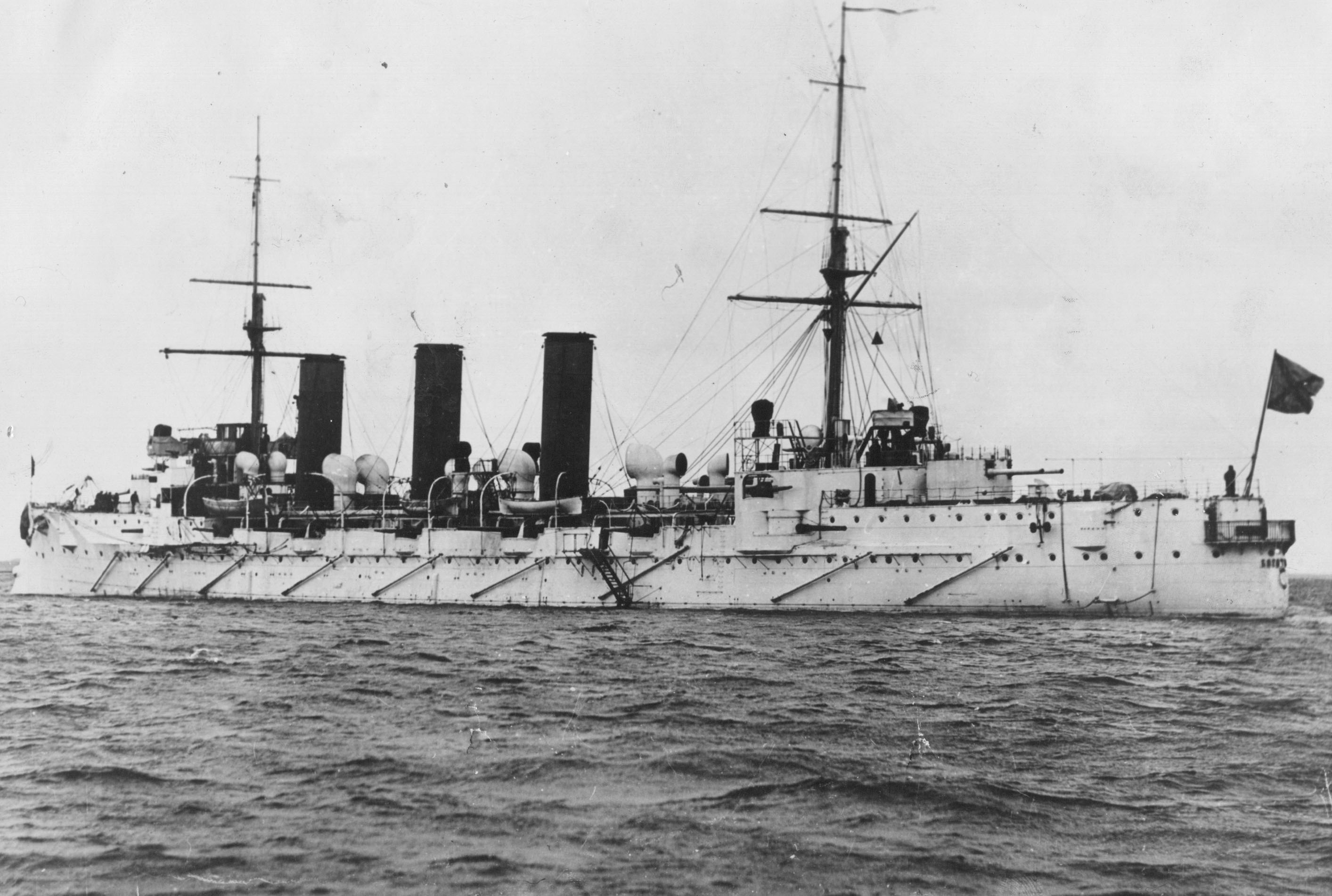 Imperial Russian cruiser Bogatyr', far east.